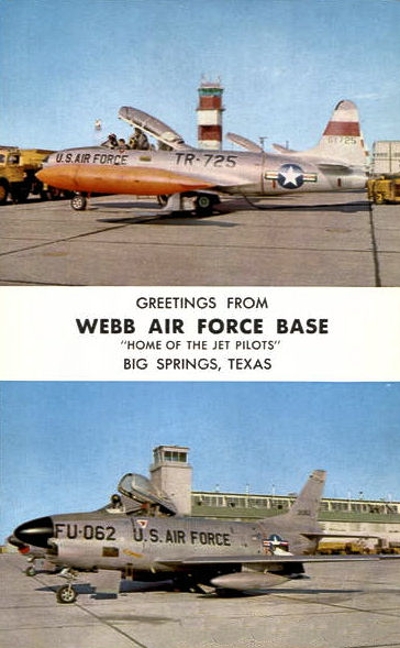 Postcard of planes at Webb AFB, Texas